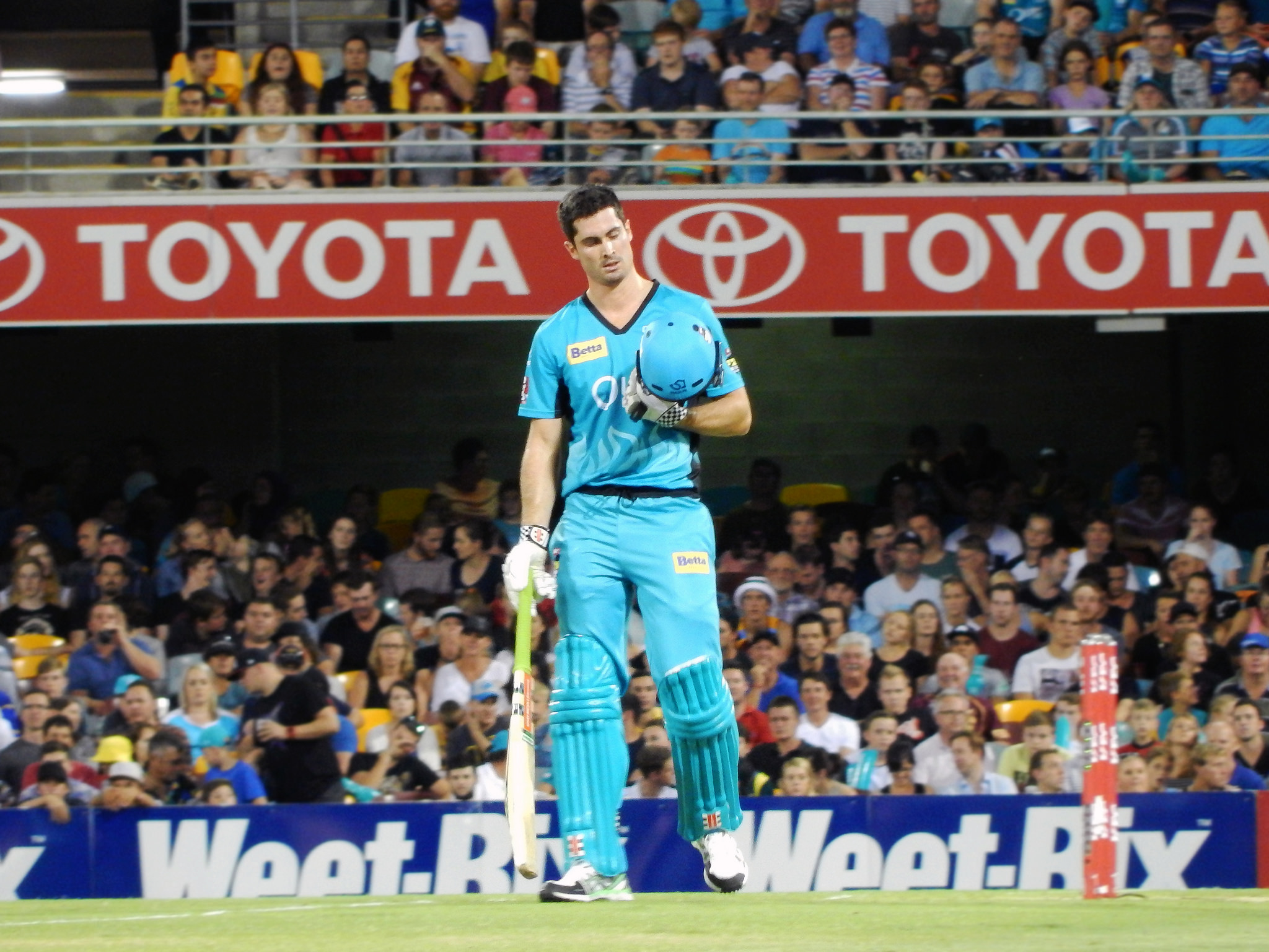 Brisbane Heat vs Melbourne Stars 28/12/2014 T20 at the Gabba, Brisbane.